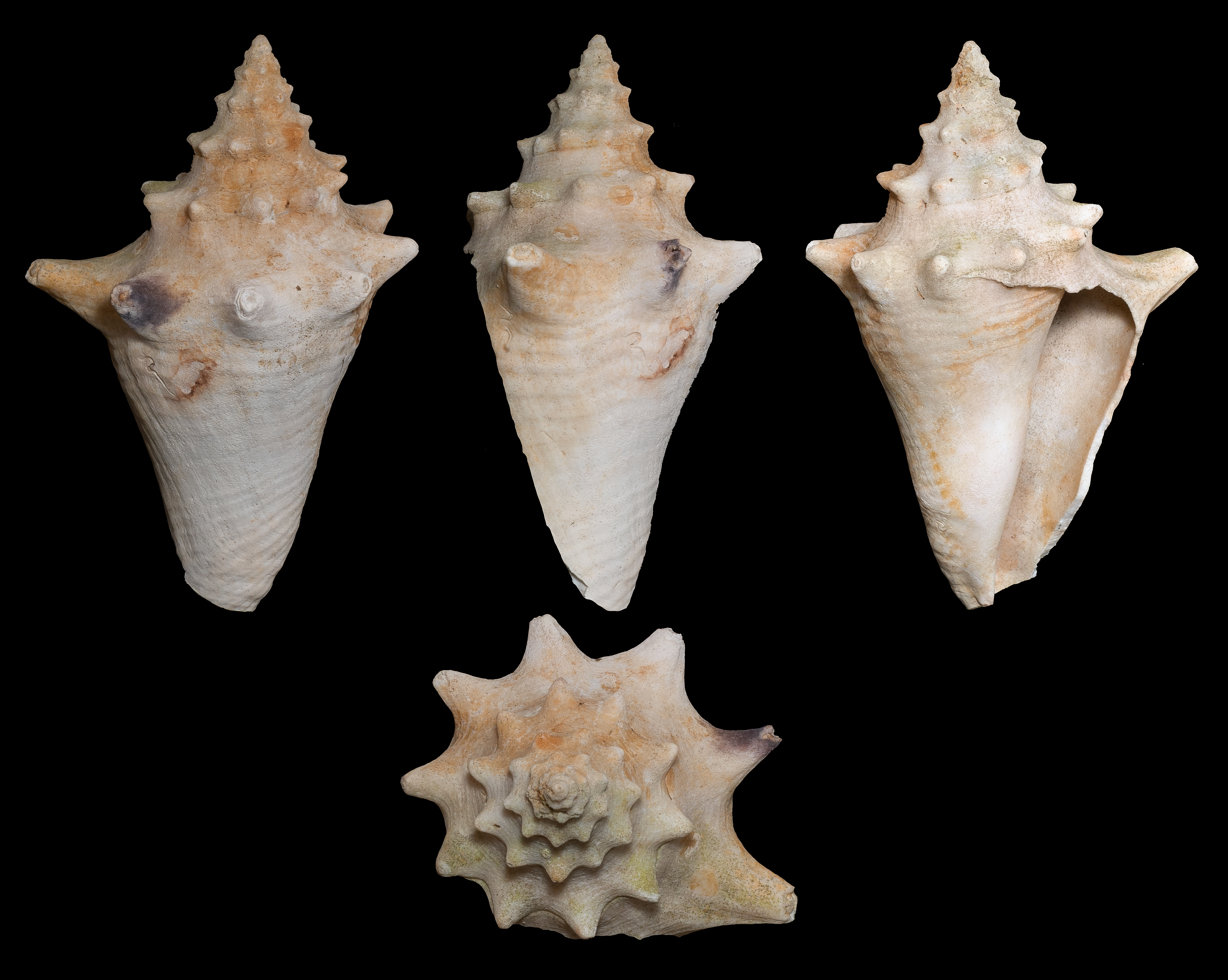 Lobatus gigas from Isla Margarita. Synonyms: Strombus gigas Linnaeus, 1758 (original combination), Eustrombus gigas (Linnaeus, 1758); Strombus canaliculatus Burry, 1949; Strombus gigas pahayokee Petuch, 1994; Strombus horridus M. Smith, 1940; Strombus lucifer Linnaeus, 1758; Strombus samba Clench, 1937; Strombus verrilli McGinty, 1946.